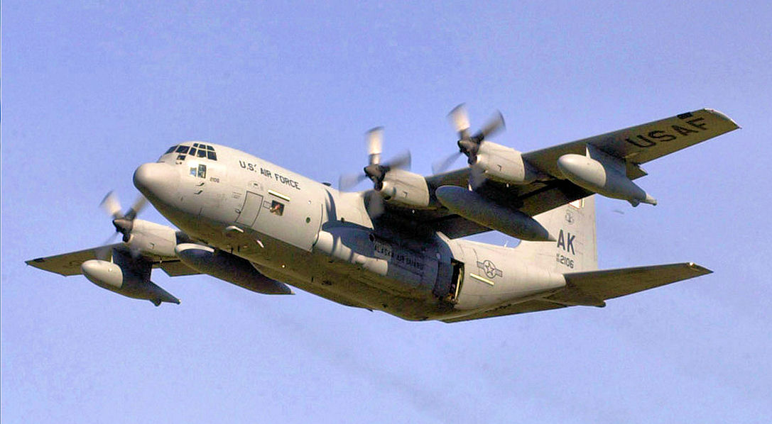 An Alaska Air National Guard HC-130 aircraft like this one from the 211th Rescue Squadron, with pararescuemen aboard from the 212th Rescue Squadron, evacuated an injured British Sailor March 21 from Deadhorse to Anchorage where he received medical treatment. The Sailor, assigned to Royal Navy submarine HMS Tireless, was injured during a deadly explosion while the vessel operated in Arctic waters north of Prudhoe Bay. (U.S. Air Force photo/Senior Master Sgt. Paul D. Charron)